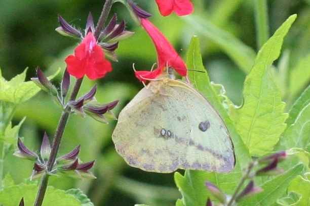 Large orange sulphur (Phoebis agarithe) female